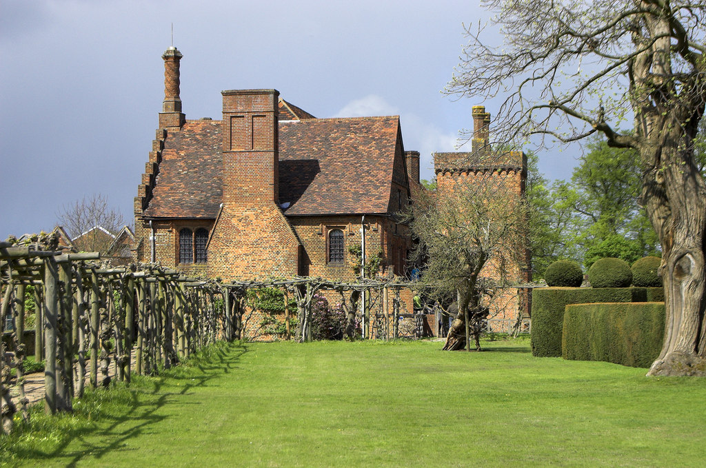 Hatfield House: the Old Palace, near to Hatfield, Hertfordshire, Great Britain. View of south face.